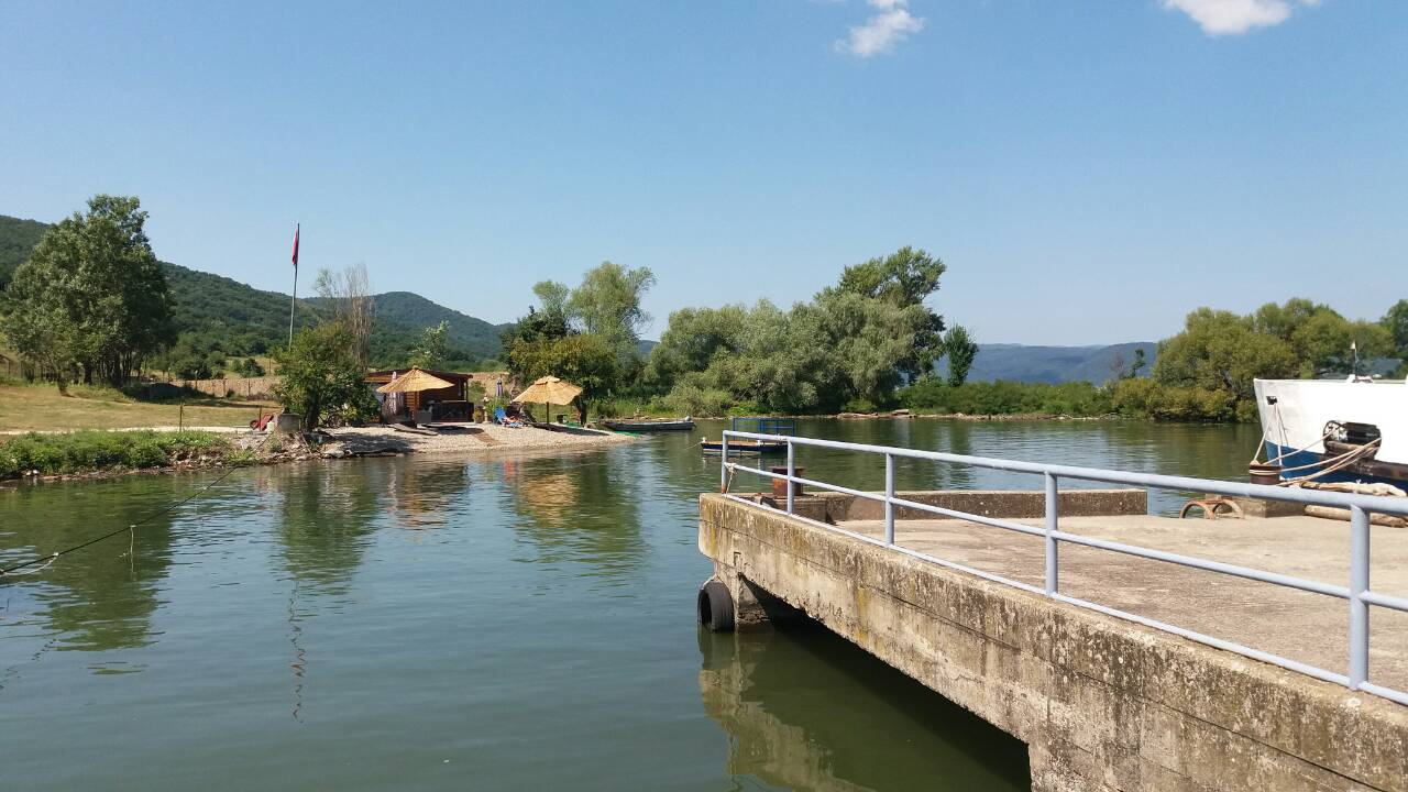 One of the many beaches on the Danube.